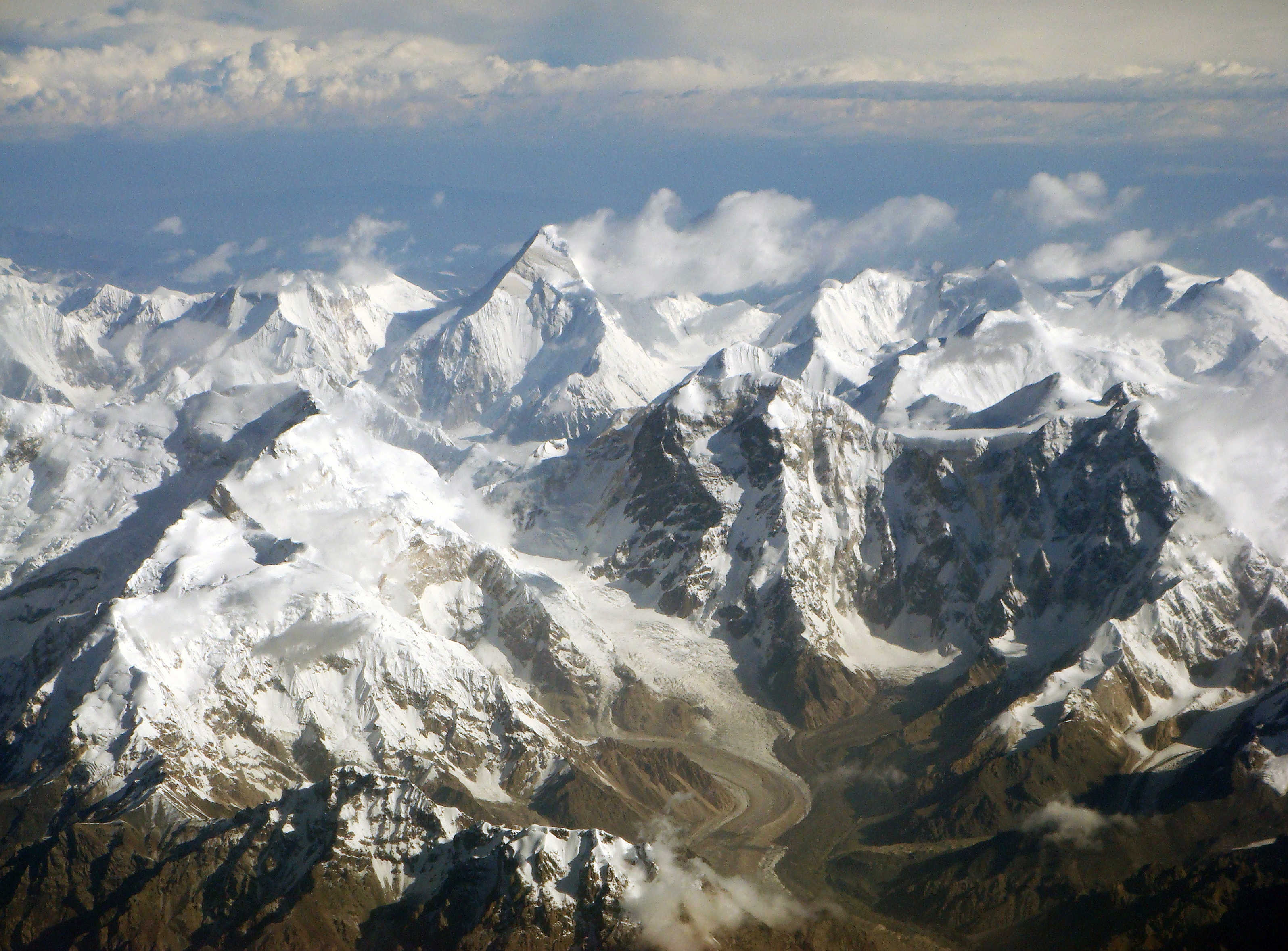 Central Tian Shan mountain range with Khan Tengri (6995 m) in the center. Taken on the flight from Urumqi to Bishkek, where Mt. Khan Tengri and Mt. Tomur (Jengish Chokusu / Mt Pobeda) can be seen clearly.